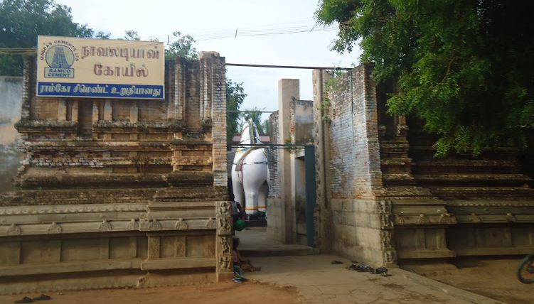 Mohanur Navaladian Temple Picture taken by Me.